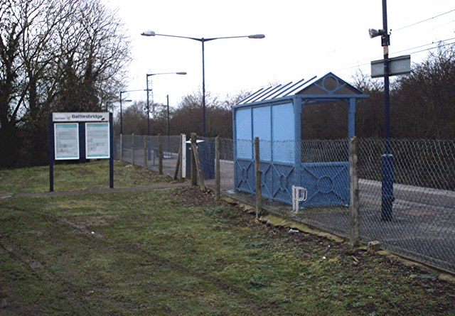 Battlesbridge Station